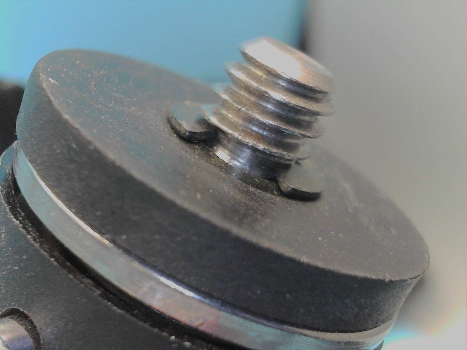 A screw secured with an E-Ring.